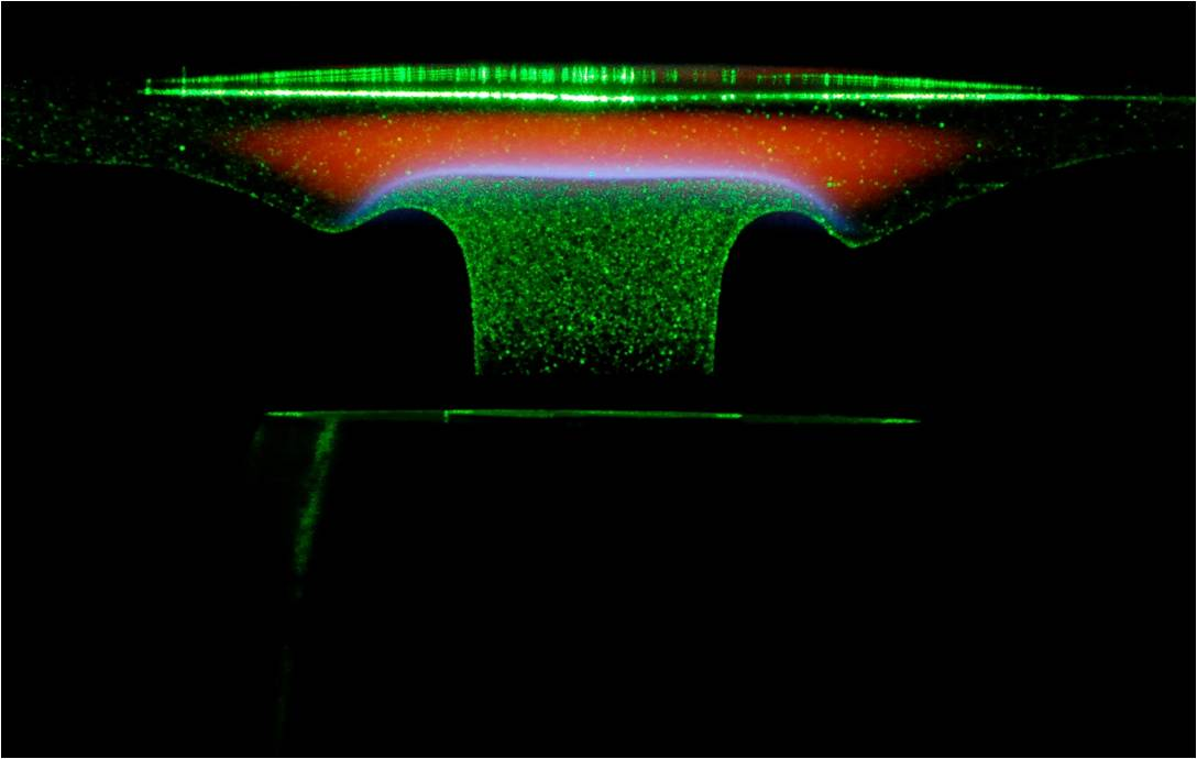 A methane stagnation flame; flow seeded with 1 micron Al2O3 particles, illuminated by green light sheet (wavelength 532 nm) for particle image velocimetry.